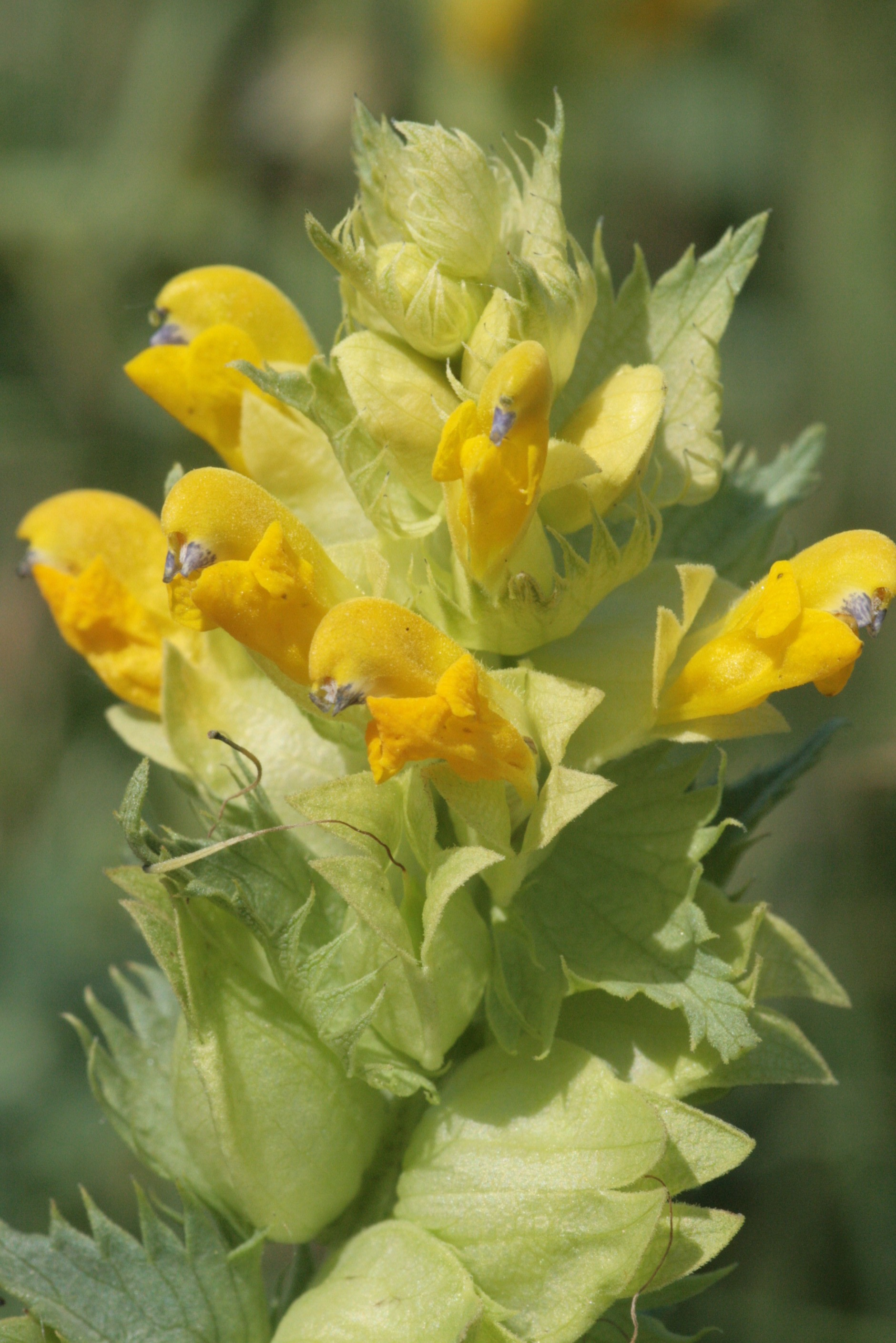 Rhinanthus serotinus